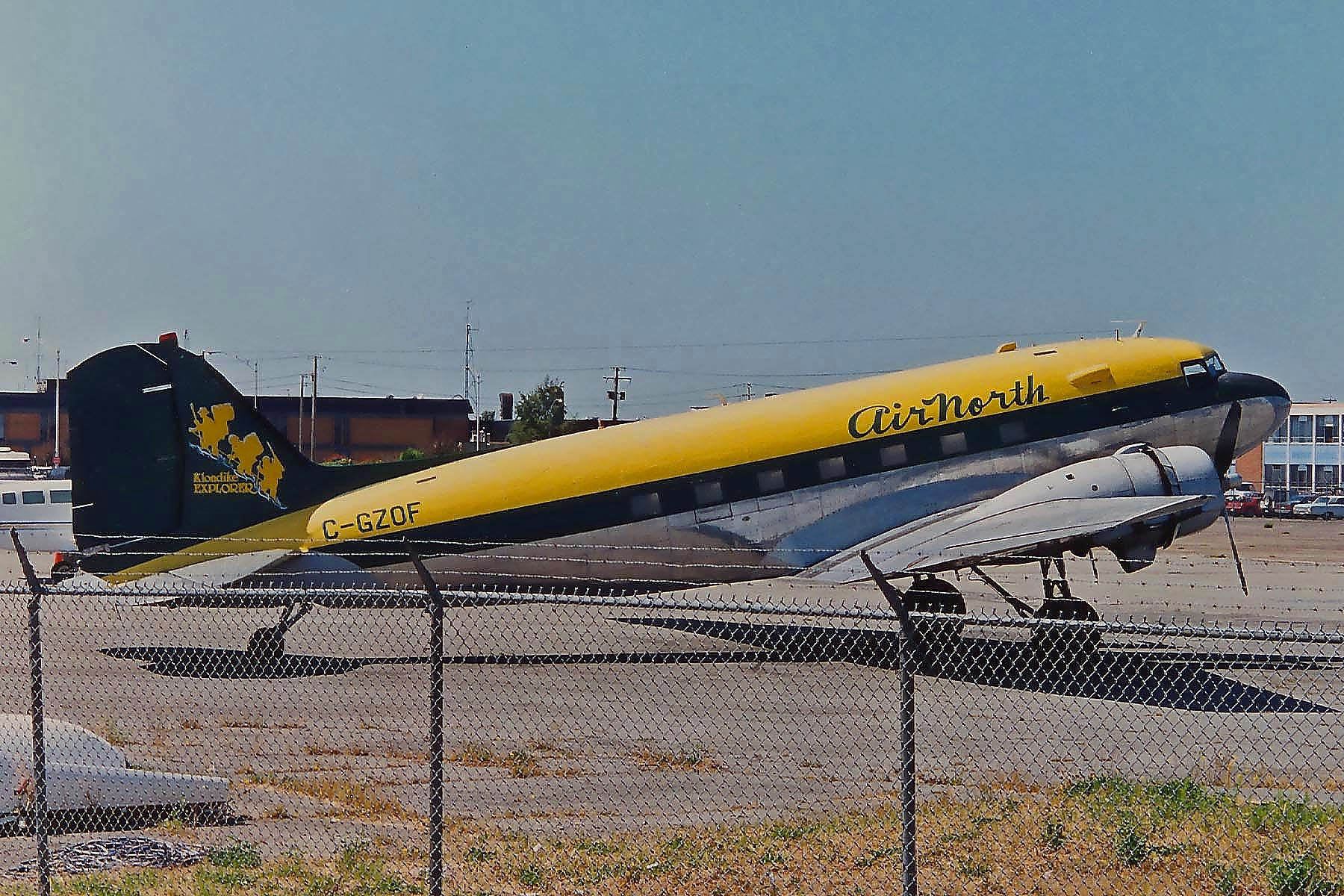 A picture of an airplane (name of it is on the file name).